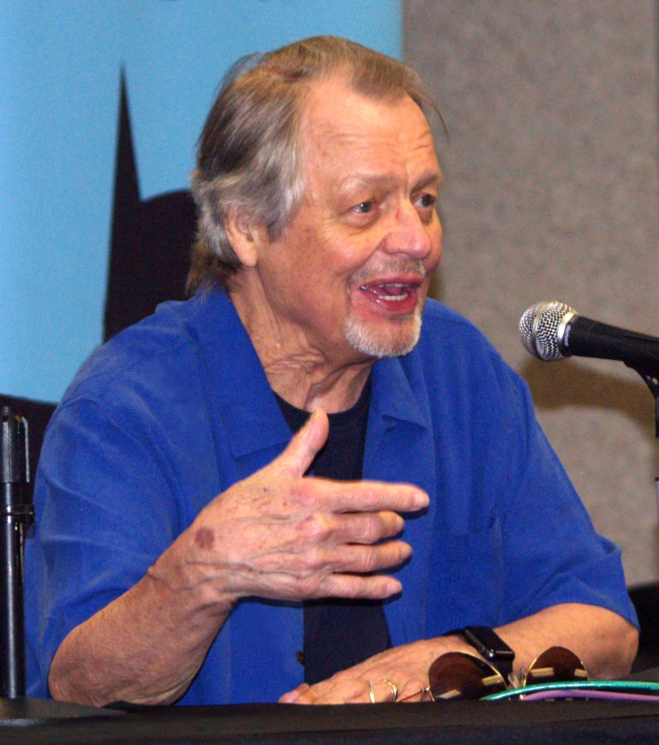 Actor David Soul, photographed during a panel discussion dedicated to the 1975 – 1979 TV series Starsky & Hutch at the Meadowlands Exposition Center in Secaucus, New Jersey on Sunday, April 29, 2018, Day 3 of the East Coast Comicon. This photo was created by Luigi Novi. It is not in the public domain, and use of this file outside of the licensing terms is a copyright violation.